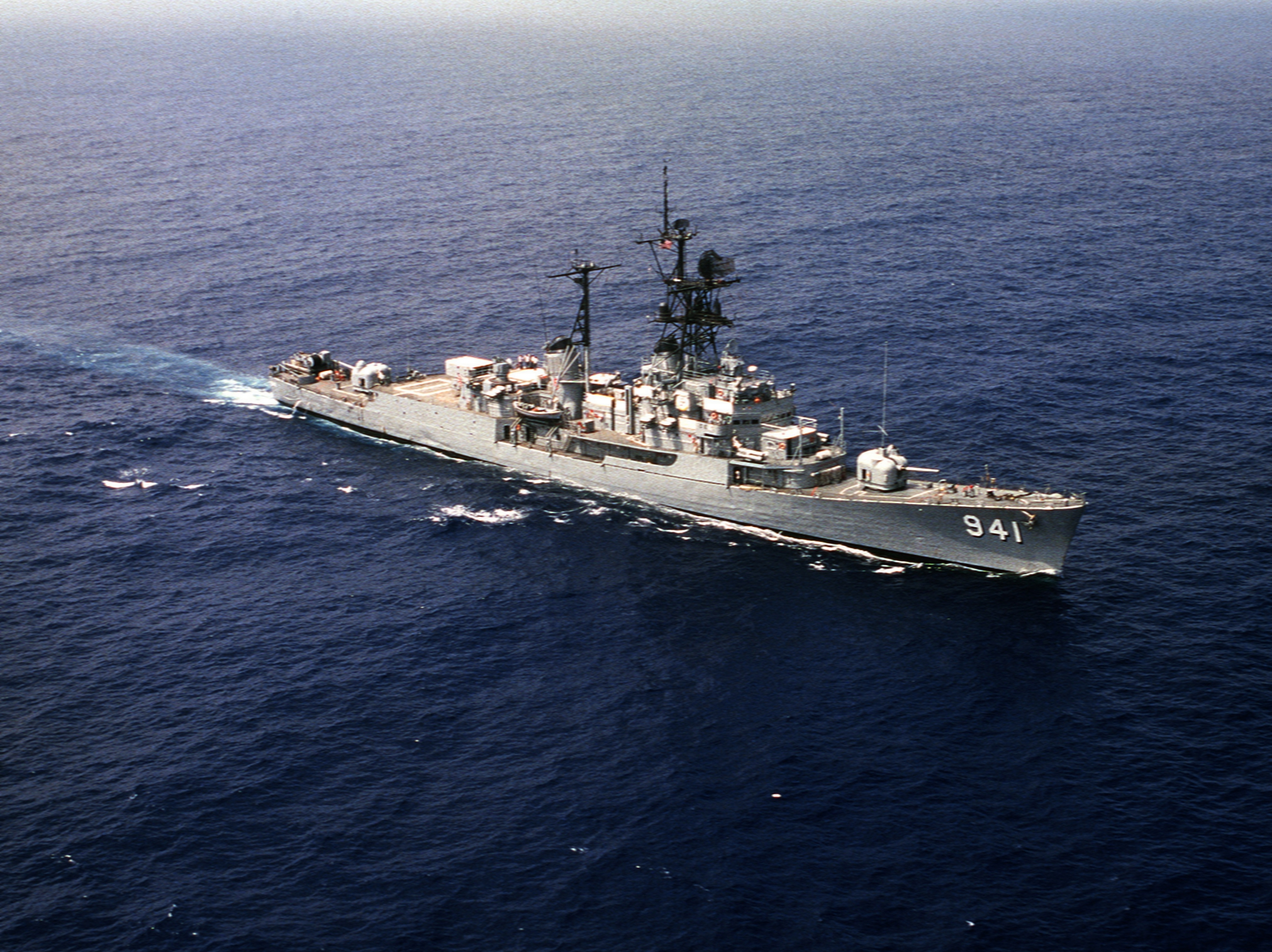 Aerial starboard bow view of the destroyer USS DUPONT (DD-941) off the coast of Lebanon, during a multinational peacekeeping operation. The ship was deployed here after a confrontation took place between Israeli forces and the Palestine Liberation Organization.